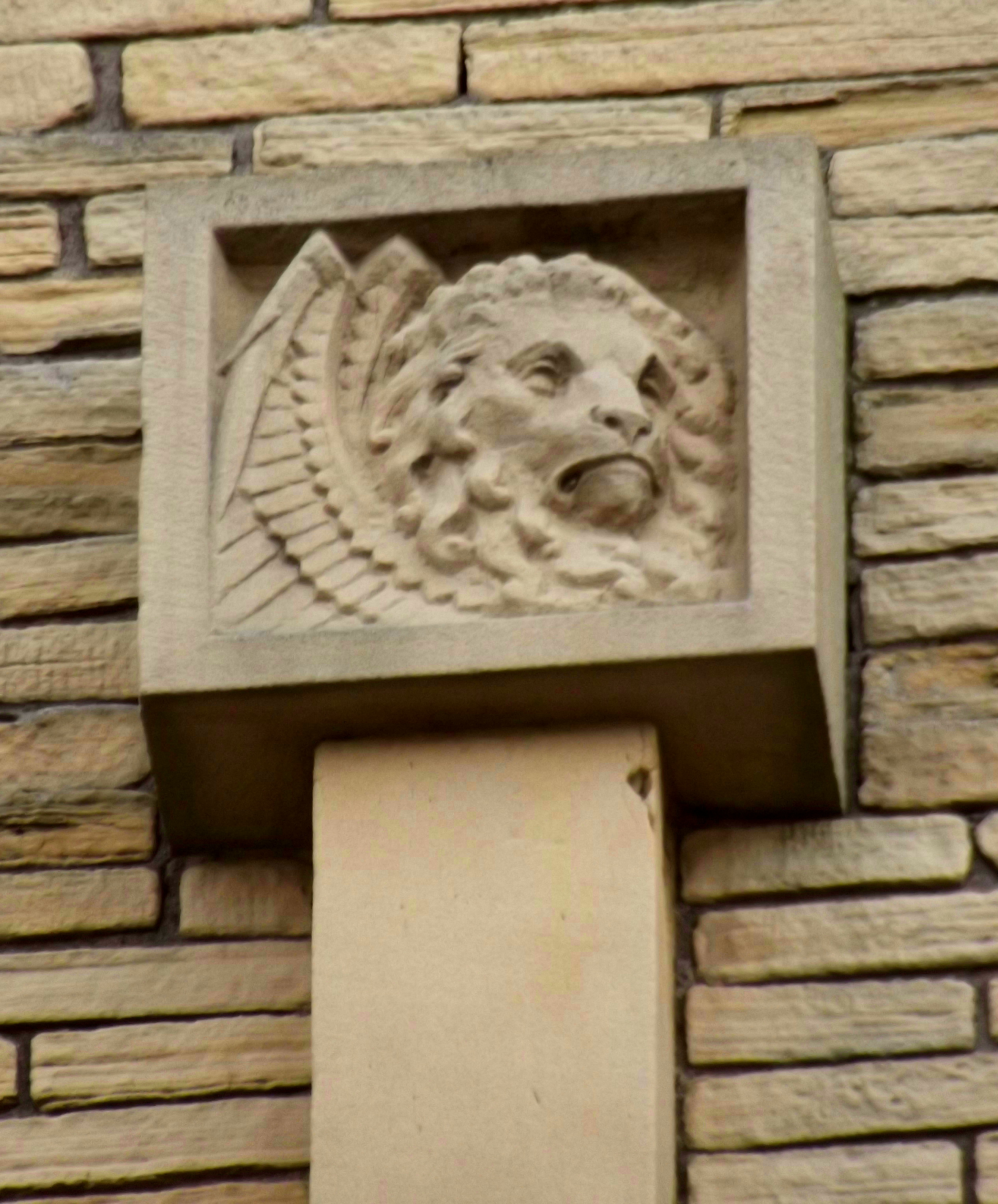 Former Church of St Mark, Old Leeds Road, Huddersfield, North Yorkshire, England. Built 1887, designed by architect William Swinden Barber. Showing a winged lion, one of the symbols of Mark the Evangelist.